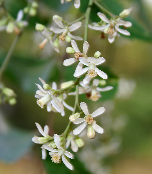 Neem, Margosa, Neeb, Nimtree, Nimba, Vepu, Vempu, Vepa, Bevu, Veppam, Aarya Veppu or Indian-lilac Azadirachta indica in Hyderabad, India.